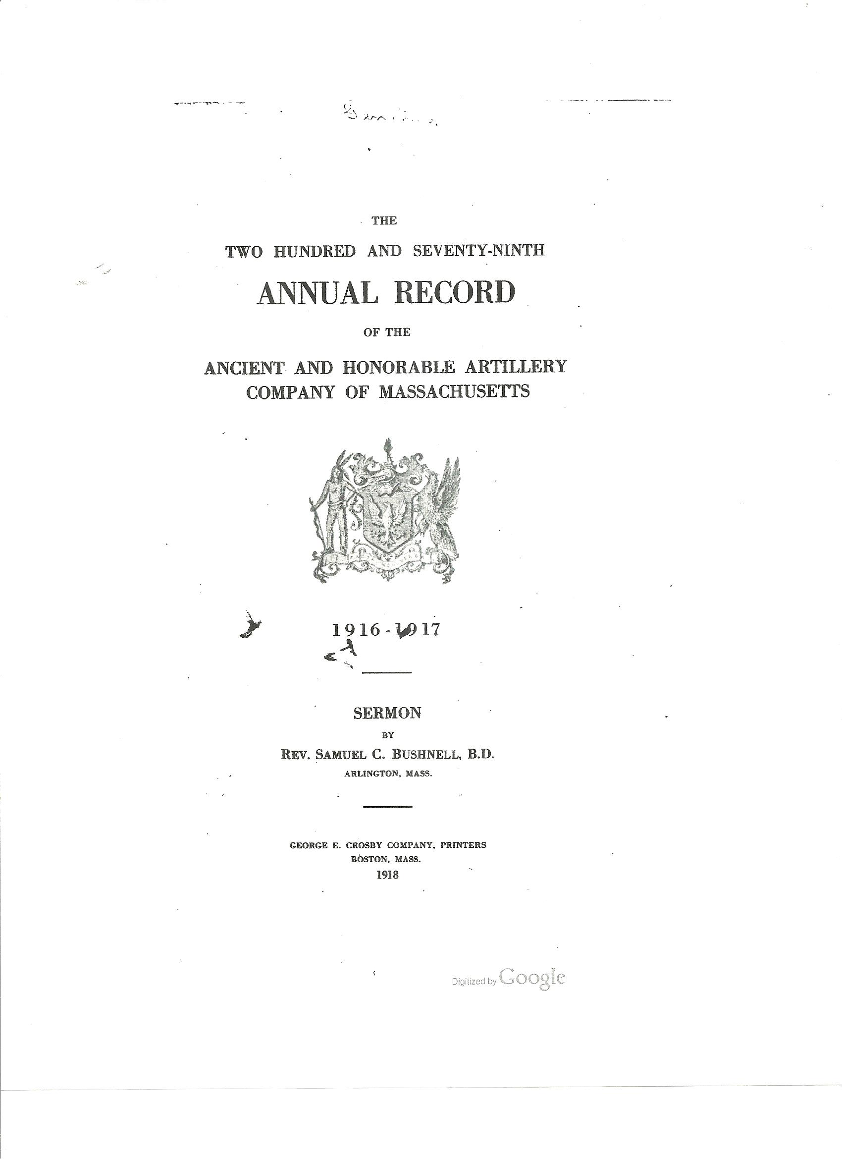 Cover page of 279th Annual Record of the Ancient and Honorable Artillery Company of Massachusetts